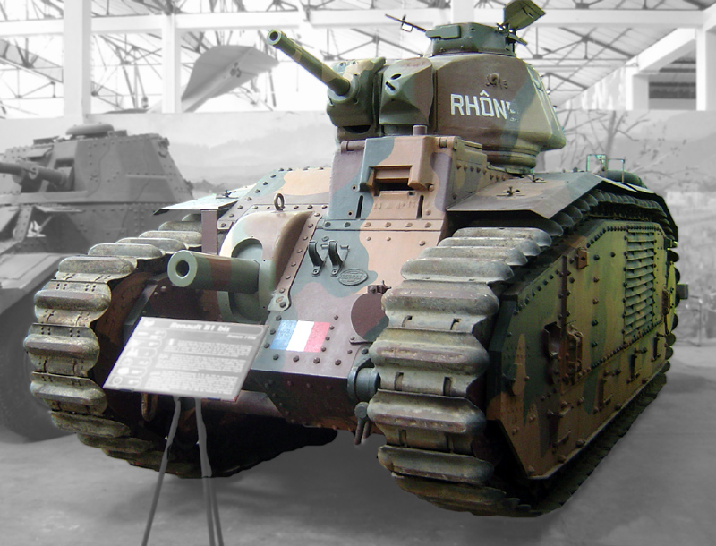 Char B1bis on display at the Musée des Blindés in Saumur. The picture taken August 8, 2006.